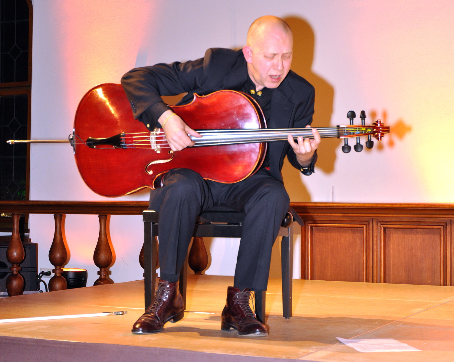 Ernst Reijseger at Altes Rathaus, Munich 2015 for Kultureller Ehrenpreis to Werner Herzog